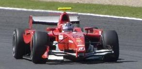 Carlos Iaconelli driving for BCN Competicion at the Circuit de Nevers Magny-Cours round of the 2008 GP2 Series season.